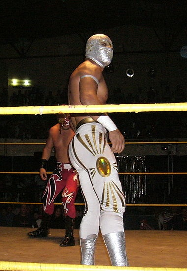 Mexican wrestler/luchador Místico.